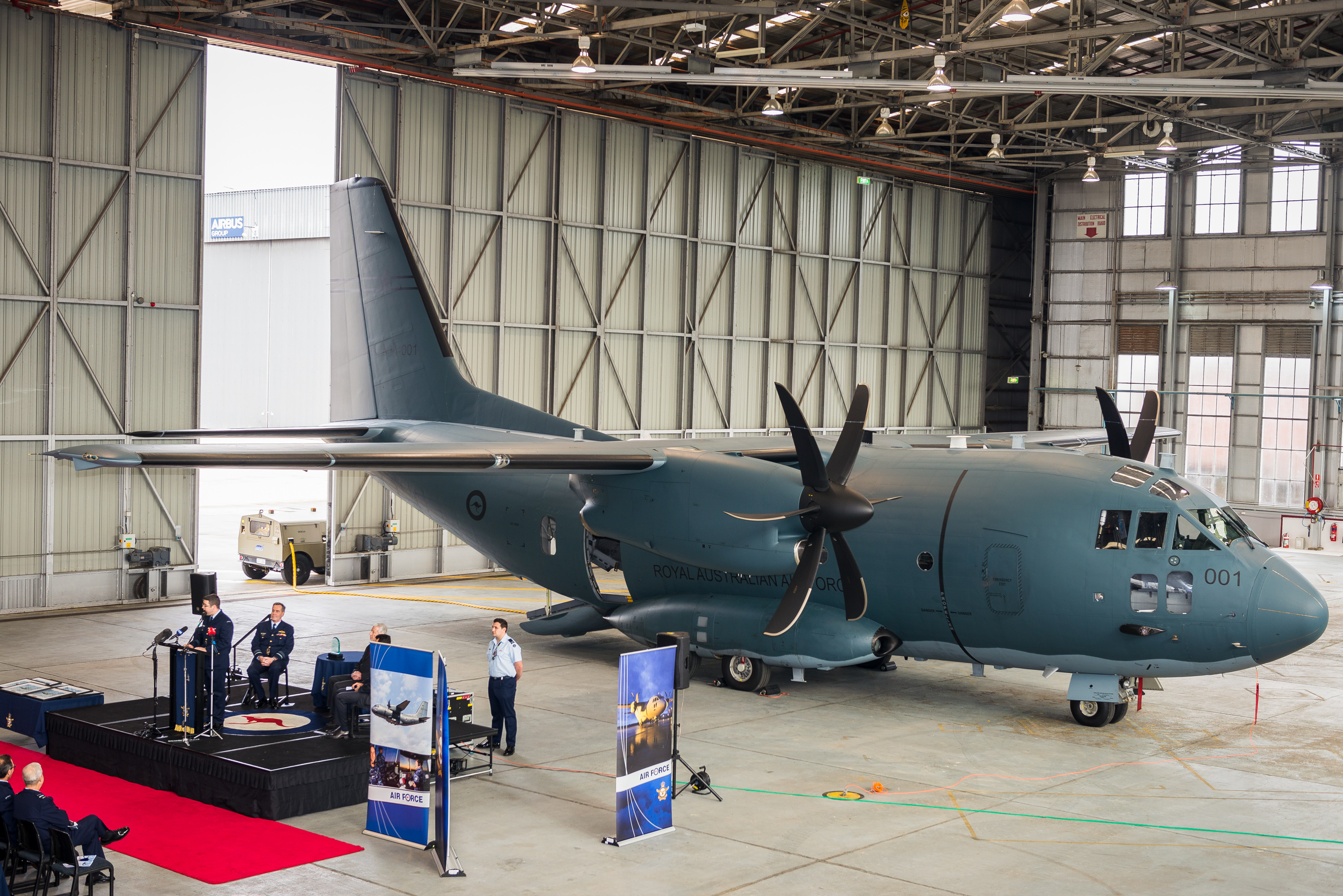 The Royal Australian Air Force first C-27J Spartan battlefield airlift aircraft on display following the welcome ceremony at RAAF Base Richmond on June 30, 2015